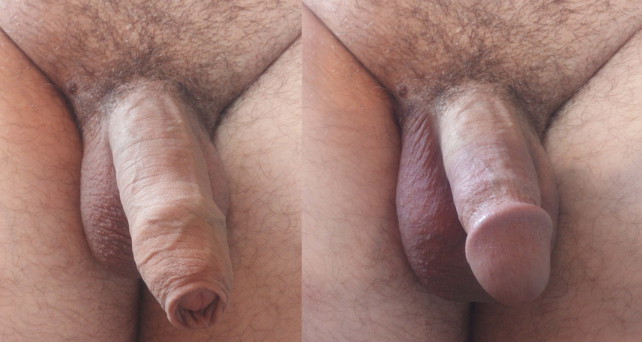 Uncircumcised and circumcised penis, before and after. High & tight cut style.